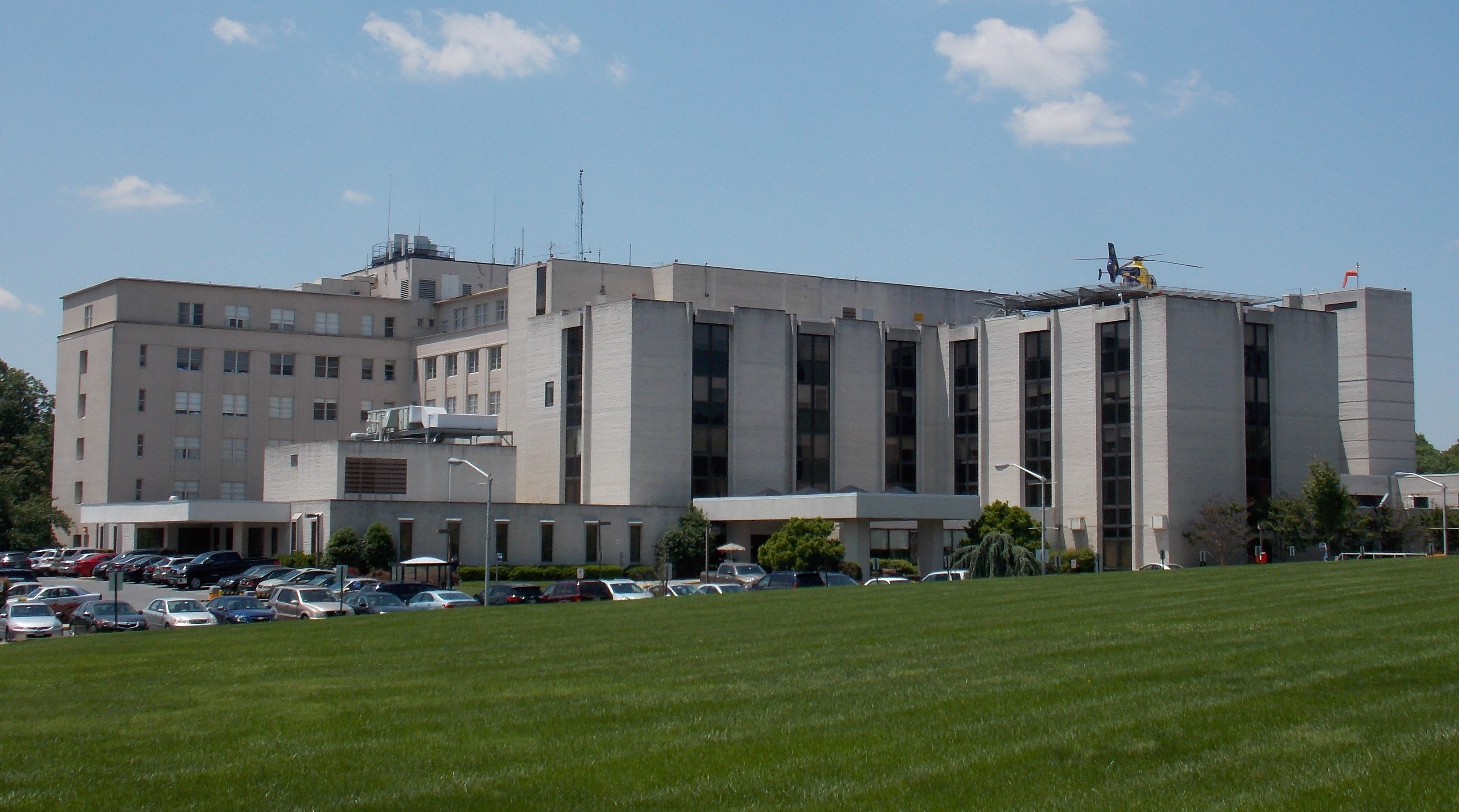 Washington Adventist Hospital in Takoma Park, Maryland.